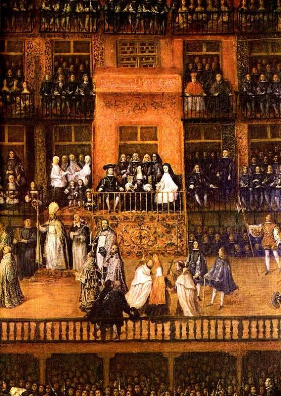 King Charles II of Spain, his first wife Marie Louise of Orleans and the Queen mother, Mariana of Austria, attend together an auto de fe from a balcony in Madrid's Plaza Mayor on 30 June 1680. Detail of "Auto de Fe", painting by Francisco Ricci (1683).